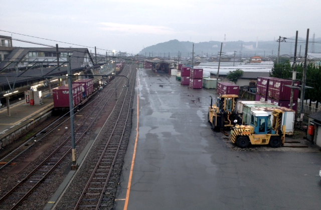 Niihama Goods Station in Niihama, Ehime pref., Japan.